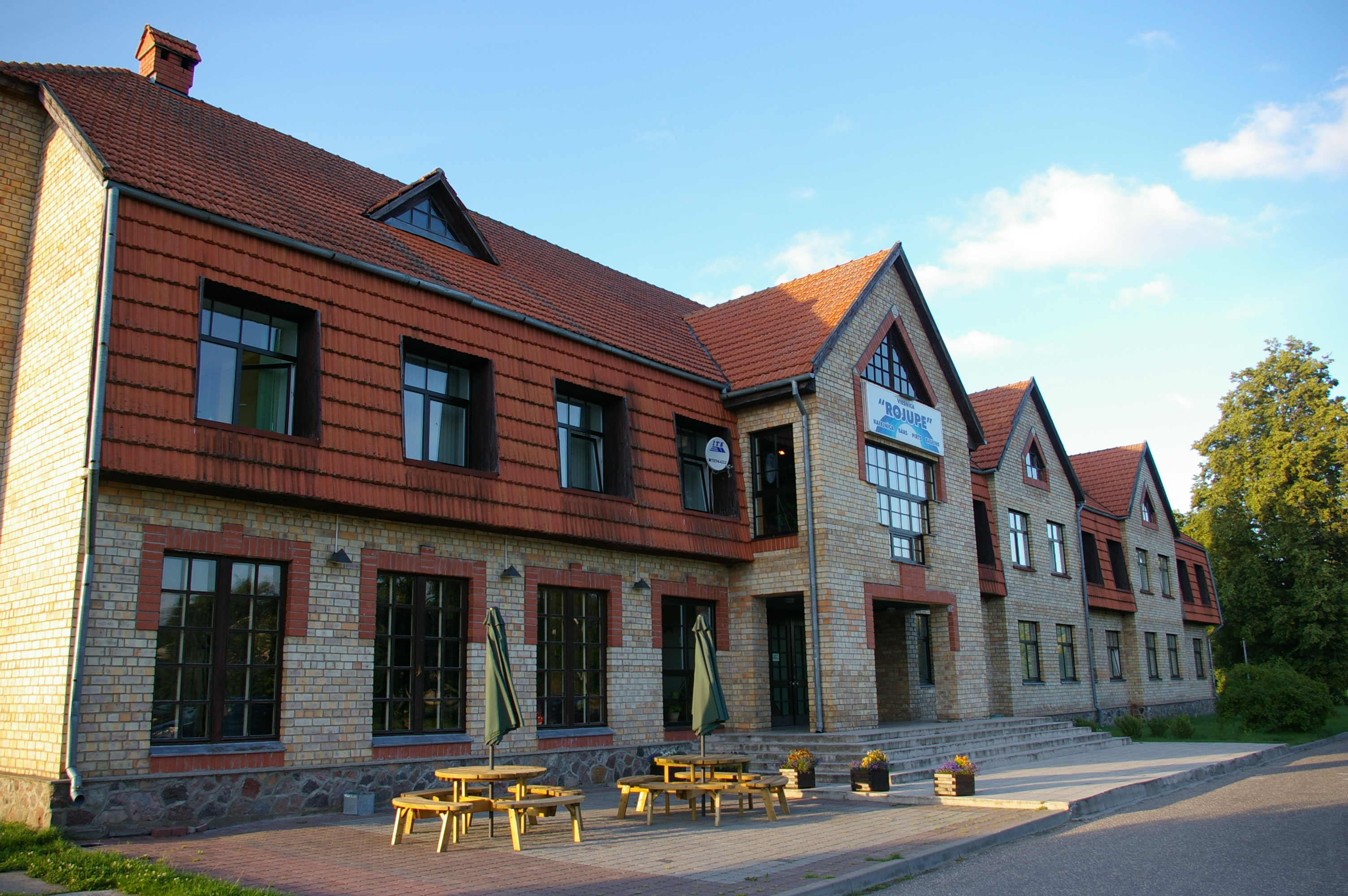 Hotel "Rojupe". Rude, Roja district.